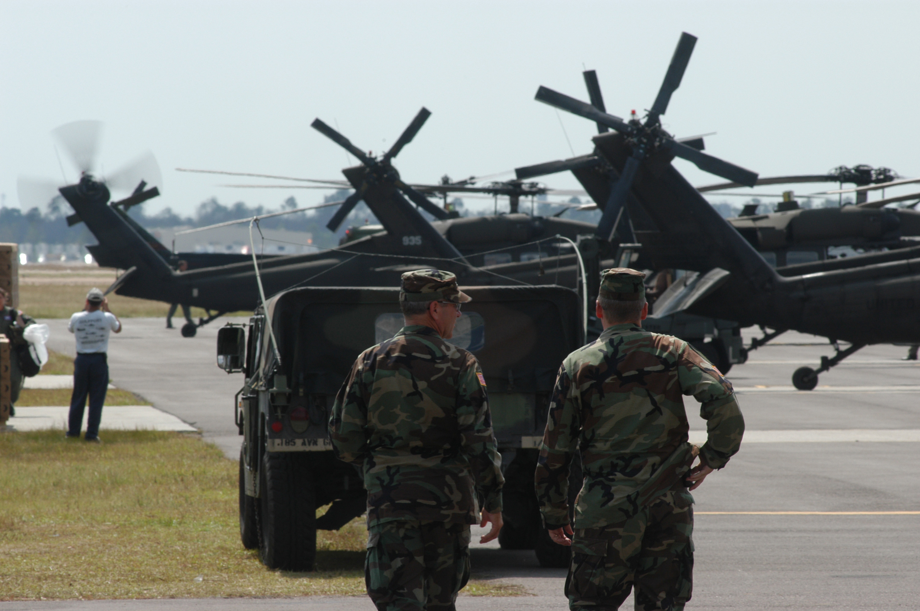 Gulfport, Miss., September 6, 2005 -- National Guard helicopters await delivery missions at the Gulfport, Miss. airport. Hurricane Katrina disrupted supplies all along the Mississippi gulf coast. FEMA/Mark Wolfe.